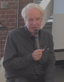 Adam Hochschild speaking with the Wikimedia Foundation in 2017